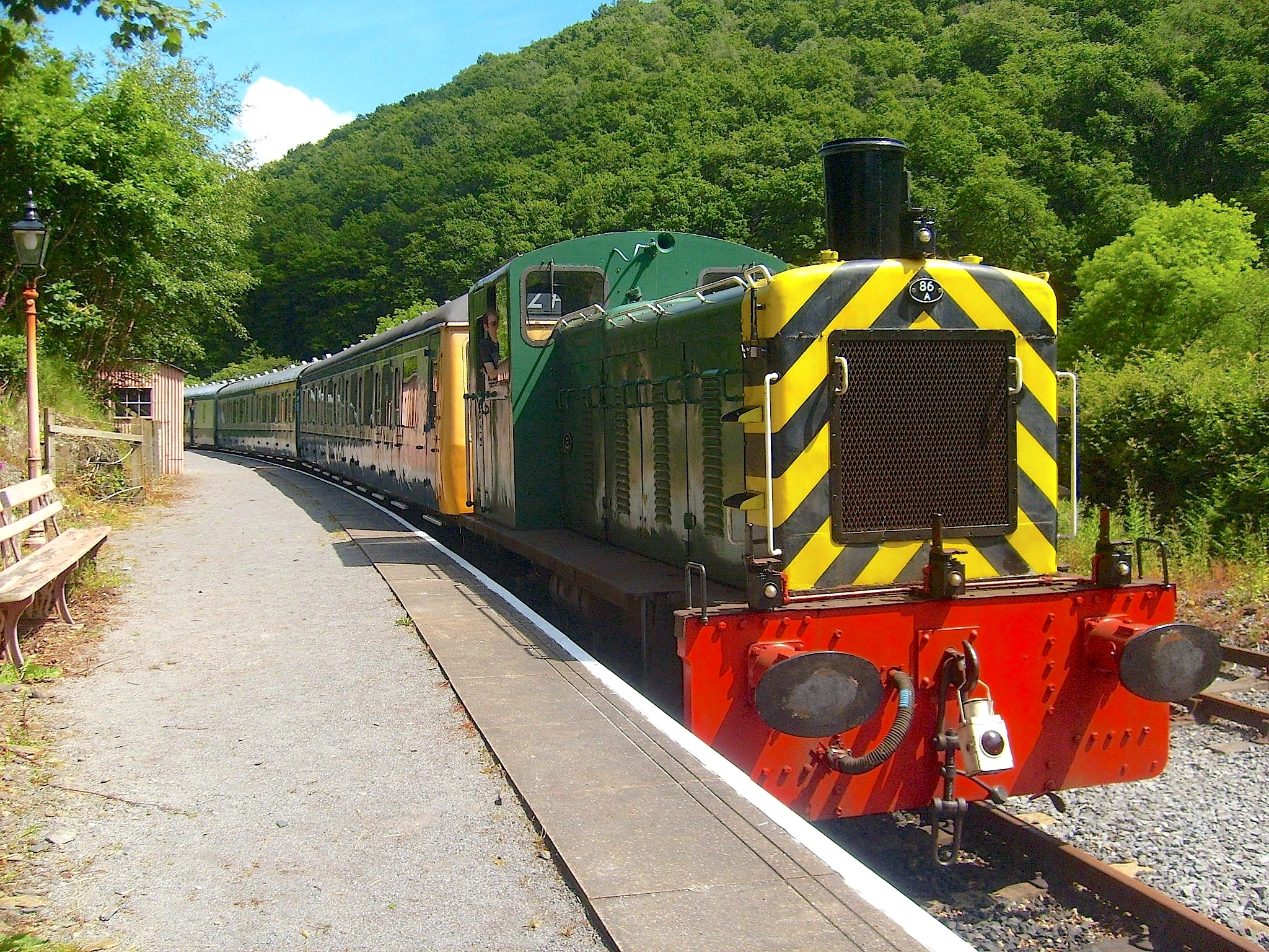 BR 0-6-0DM Class 03 D2178 and Class 117 at Danycoed Railway Station